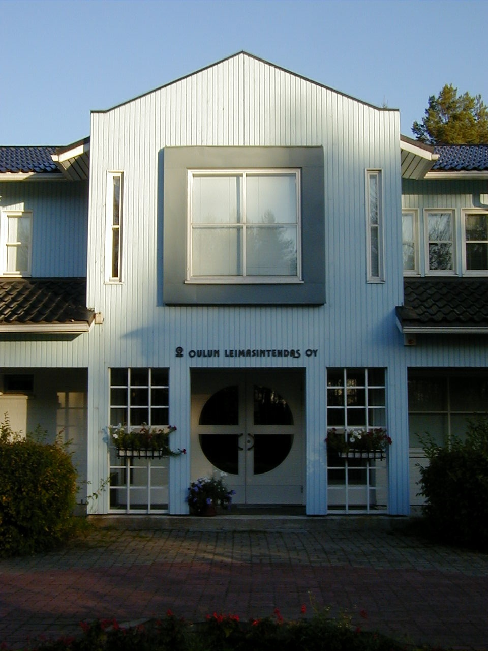 Entrance of Oulun Leimasintehdas Oy in Lapinkangas, Oulu, Finland.